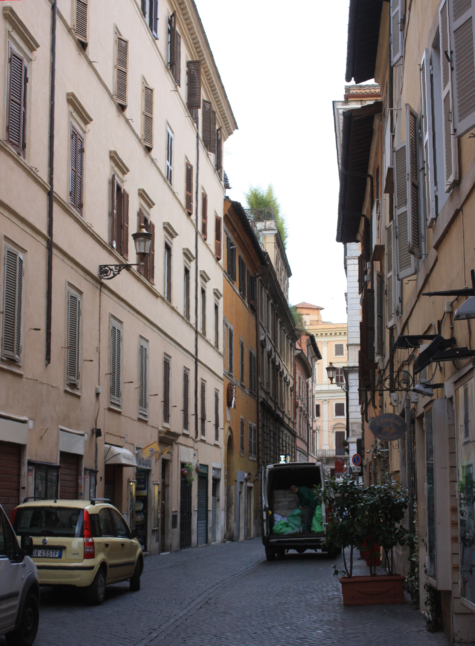 Rome, the street Via della Panetteria